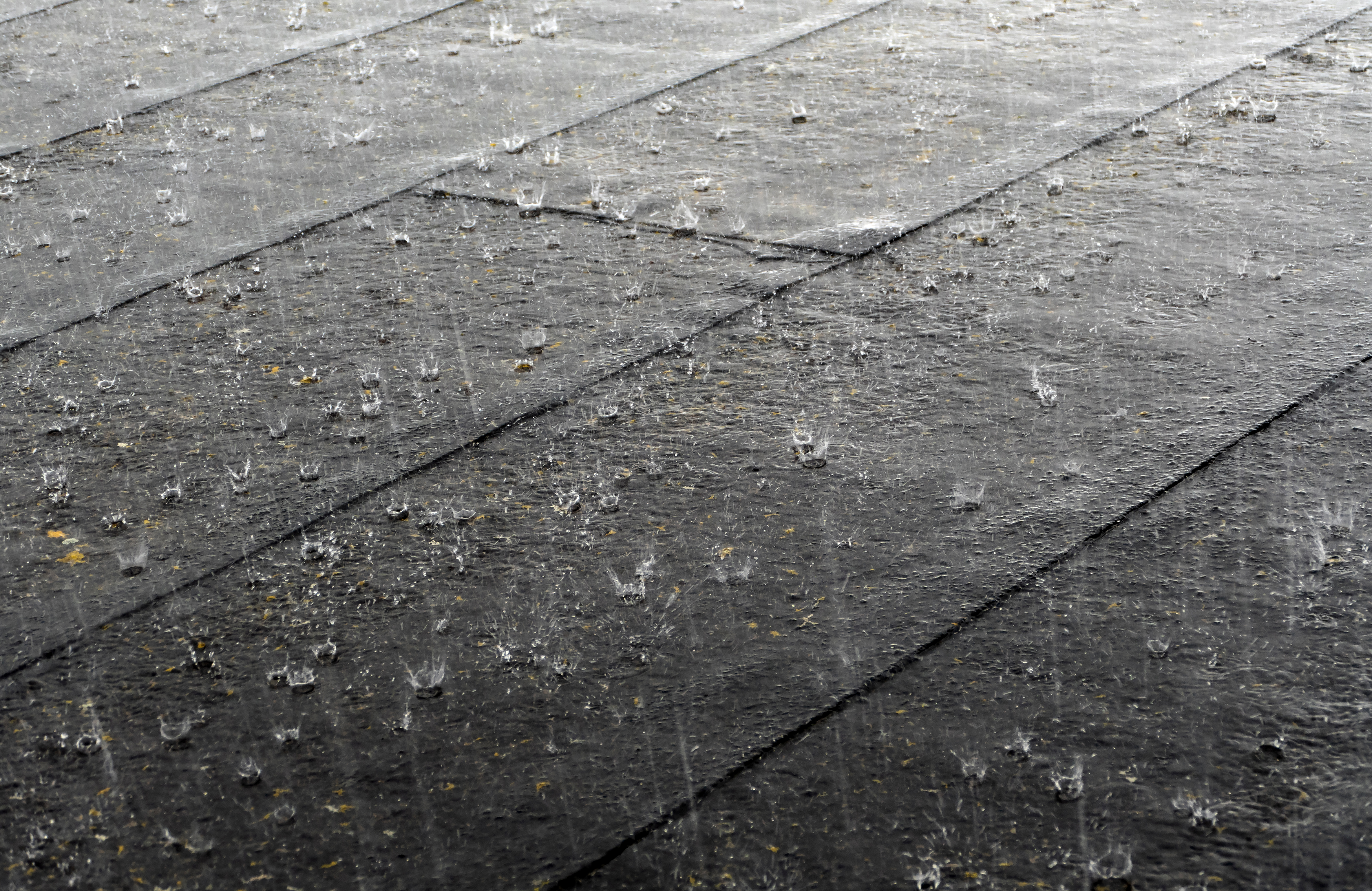 Hard rain on a roof covered with felt and tar paper in Gåseberg, Lysekil Municipality, Sweden. Original version. The yellowish dots on the roof are lichen.